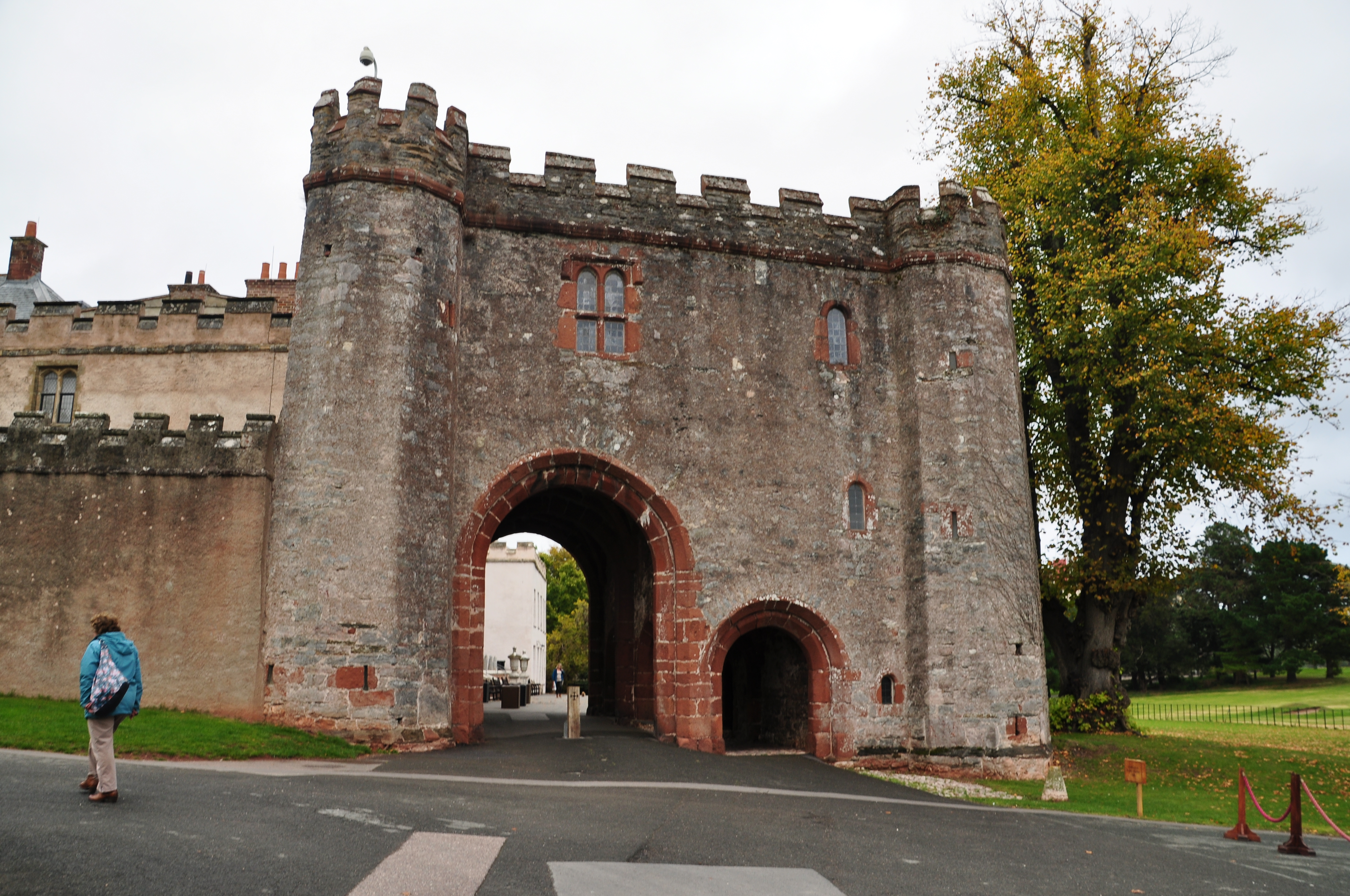 Torre Abbey